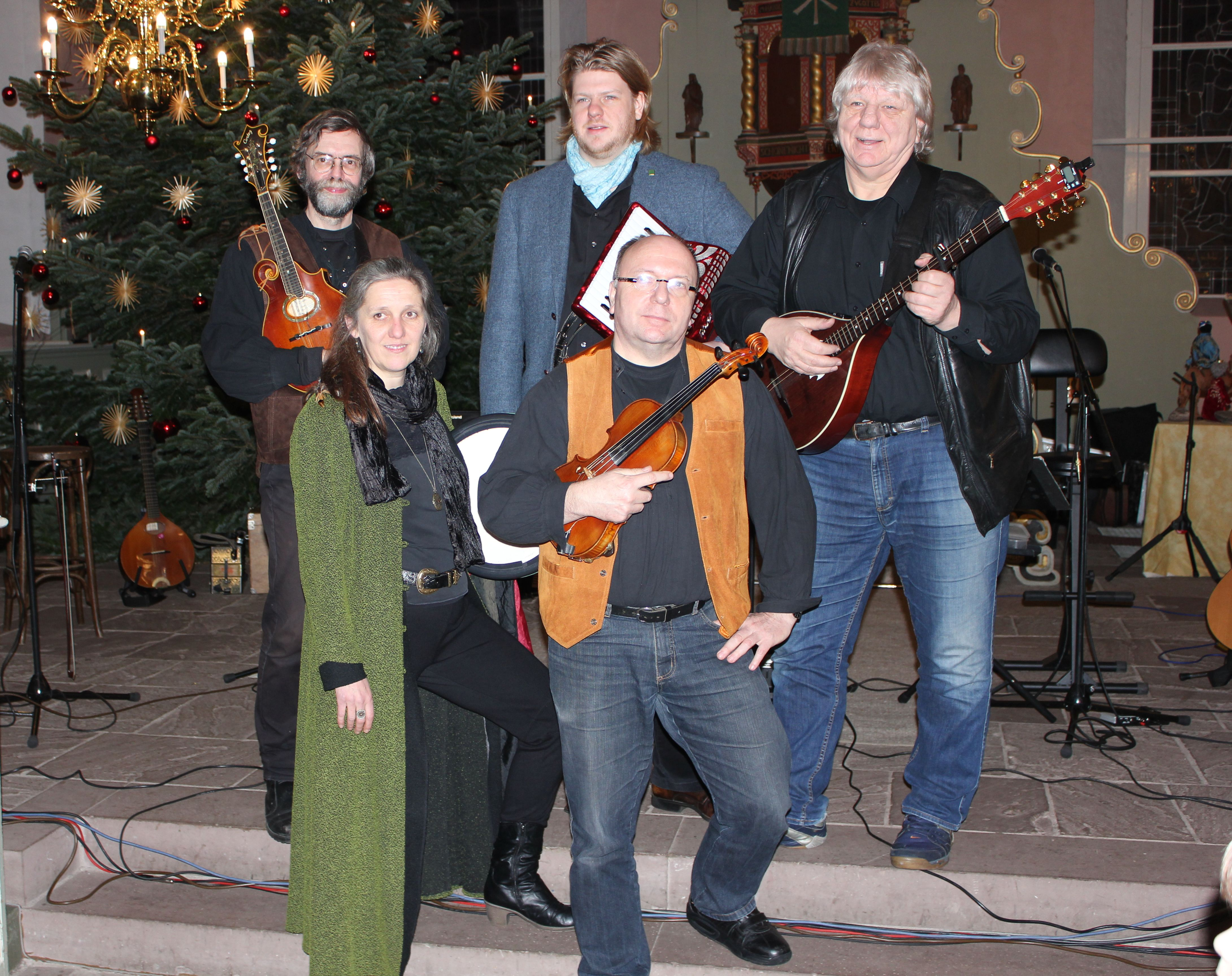 Laway 2012 in Wittmund